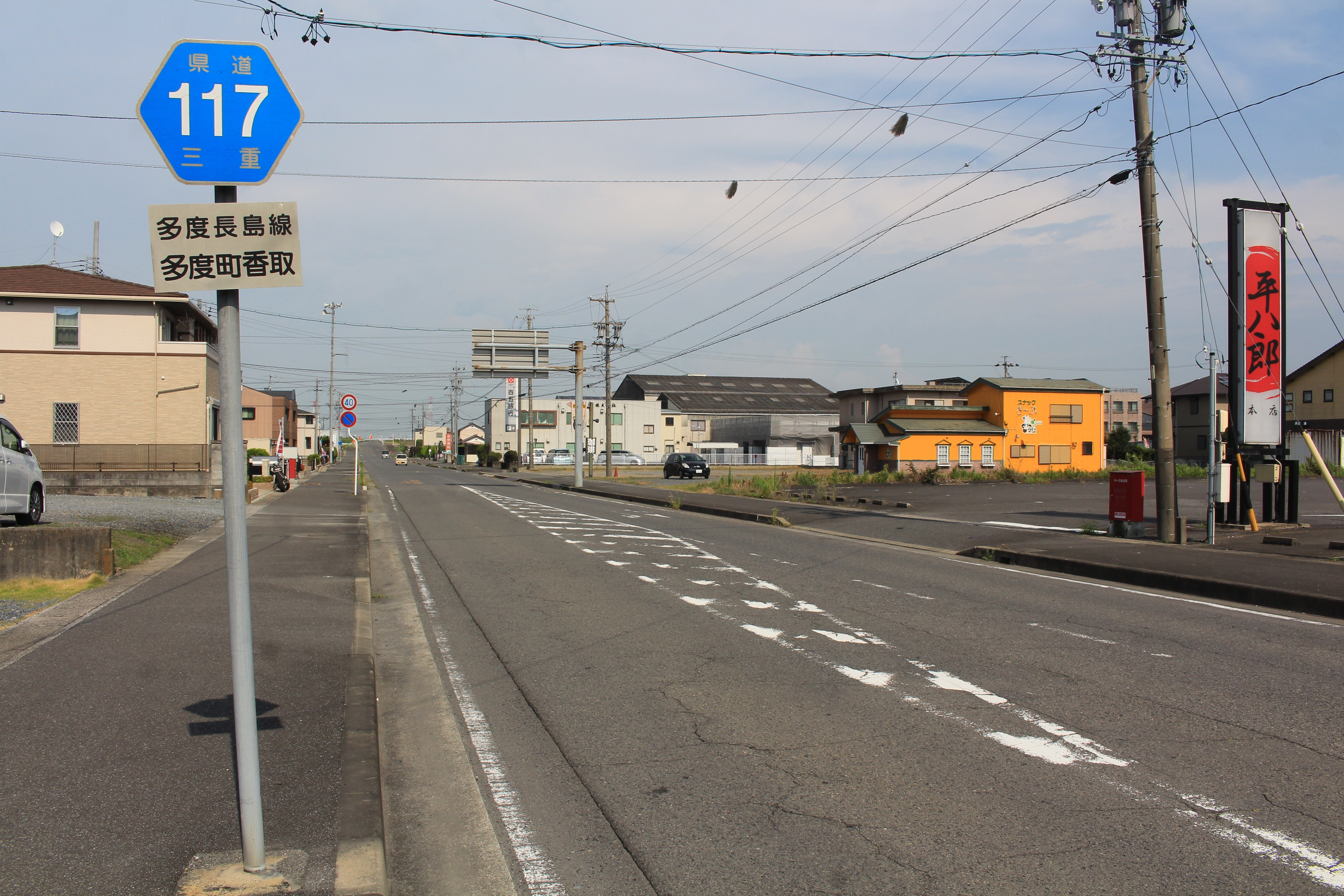 Mie Prefectural Road Route 117 in Katori, Tado, Kuwana city, Mie prefecture, Japan.